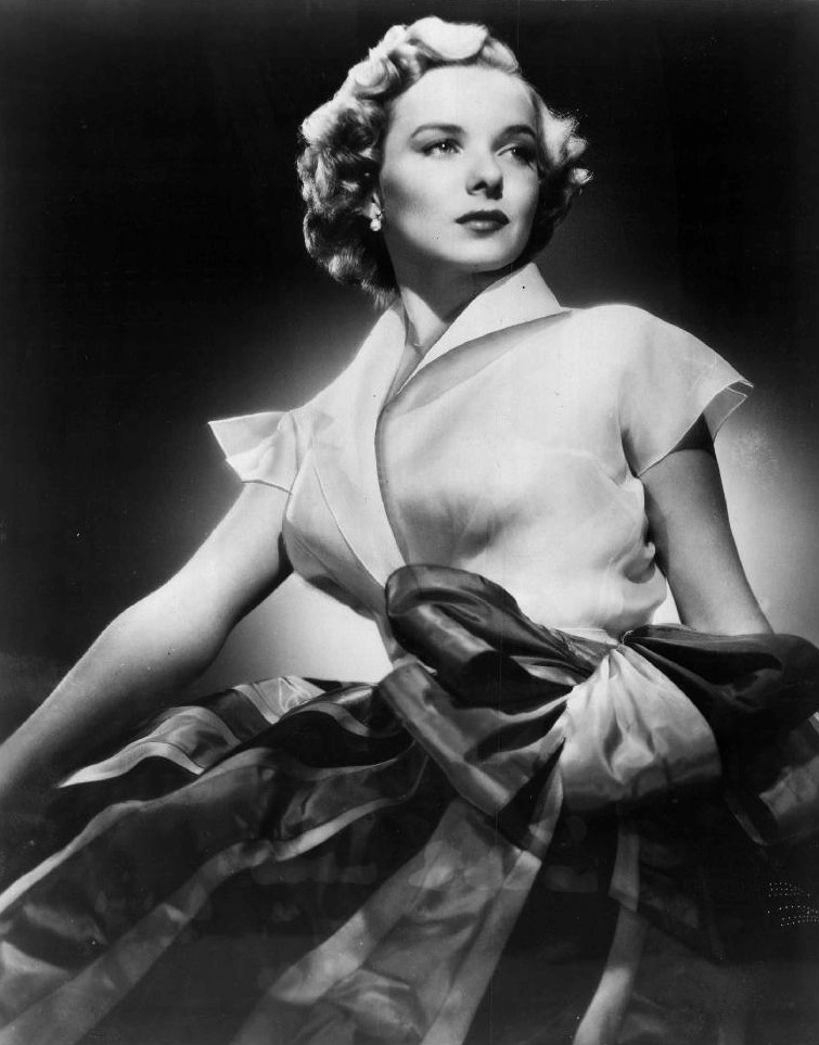 Photo of Diana Lynn from a 1952 guest appearance on the television program Schlitz Playhouse of Stars.